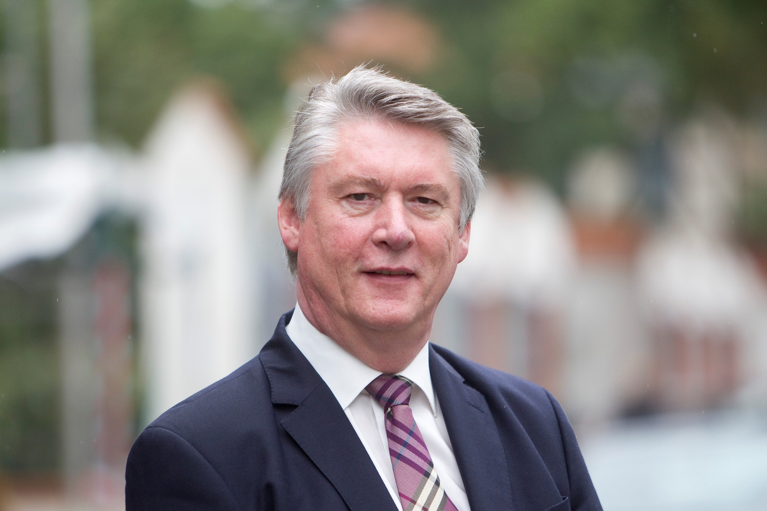 Jürgen Gehb, Institute of Federal Real Estate, Spokesman of the board